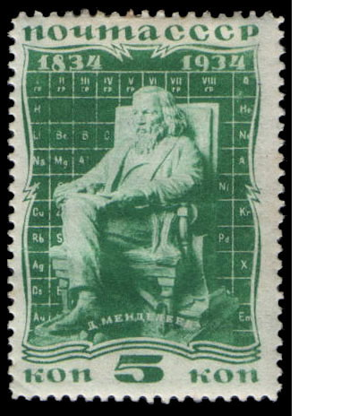 Soviet stamp of 5 kopecks (1934). Centenary of Dmitri Mendeleev, chemist and inventor who did the first version of the periodic table of elements